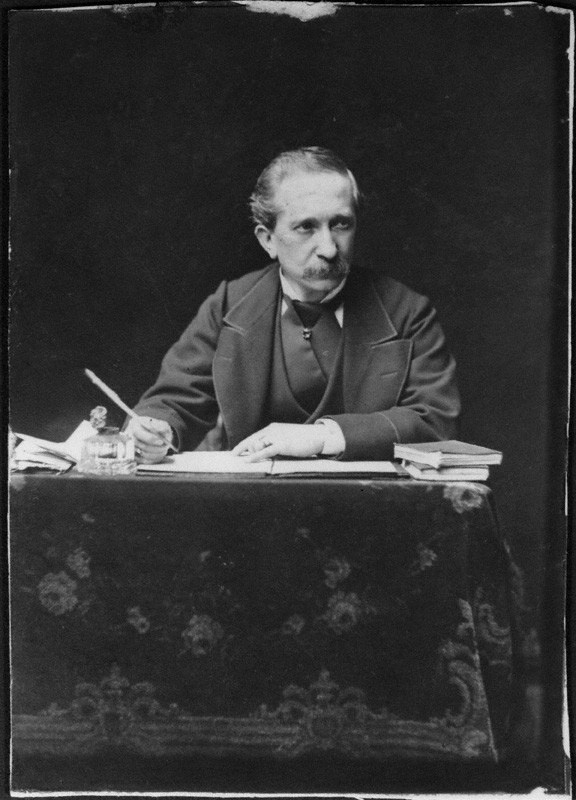 Half-plate film negative of Alexander Bassano.